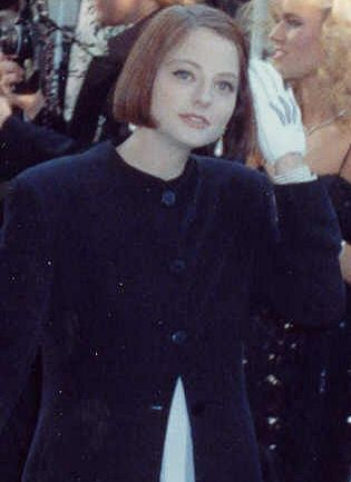 Photo taken at the 62nd Academy Awards 3/26/90 - Permission granted to copy, publish or post but please credit "photo by Alan Light" if you can